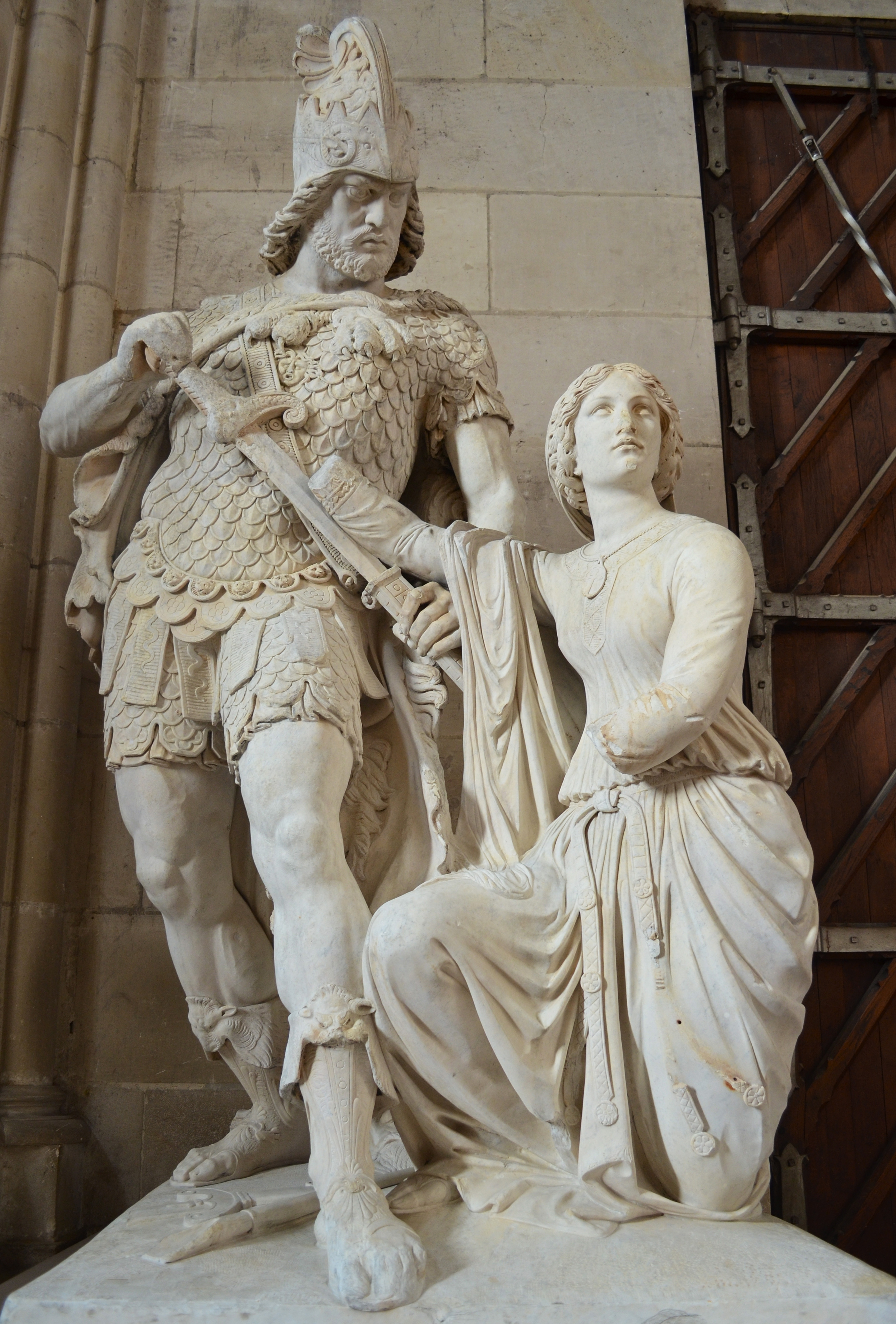 Praying Sainte Genevieve disarm Attila - Scuplture by Etienne-Hippolyte Maindron (1857), exhibited in Notre-Dame church, Cholet, France